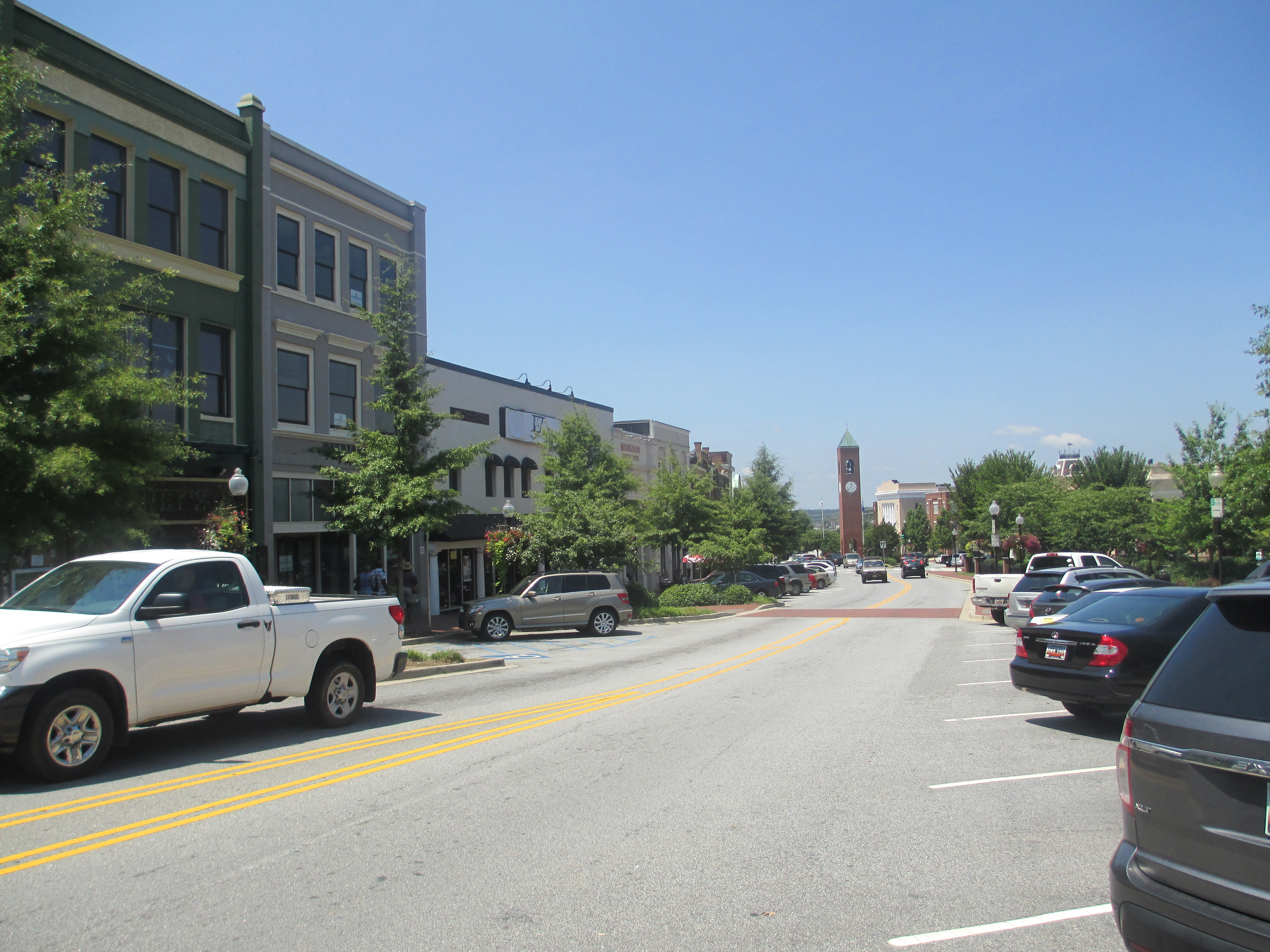 I took photo of downtown Spartanburg, SC, with Canon camera.